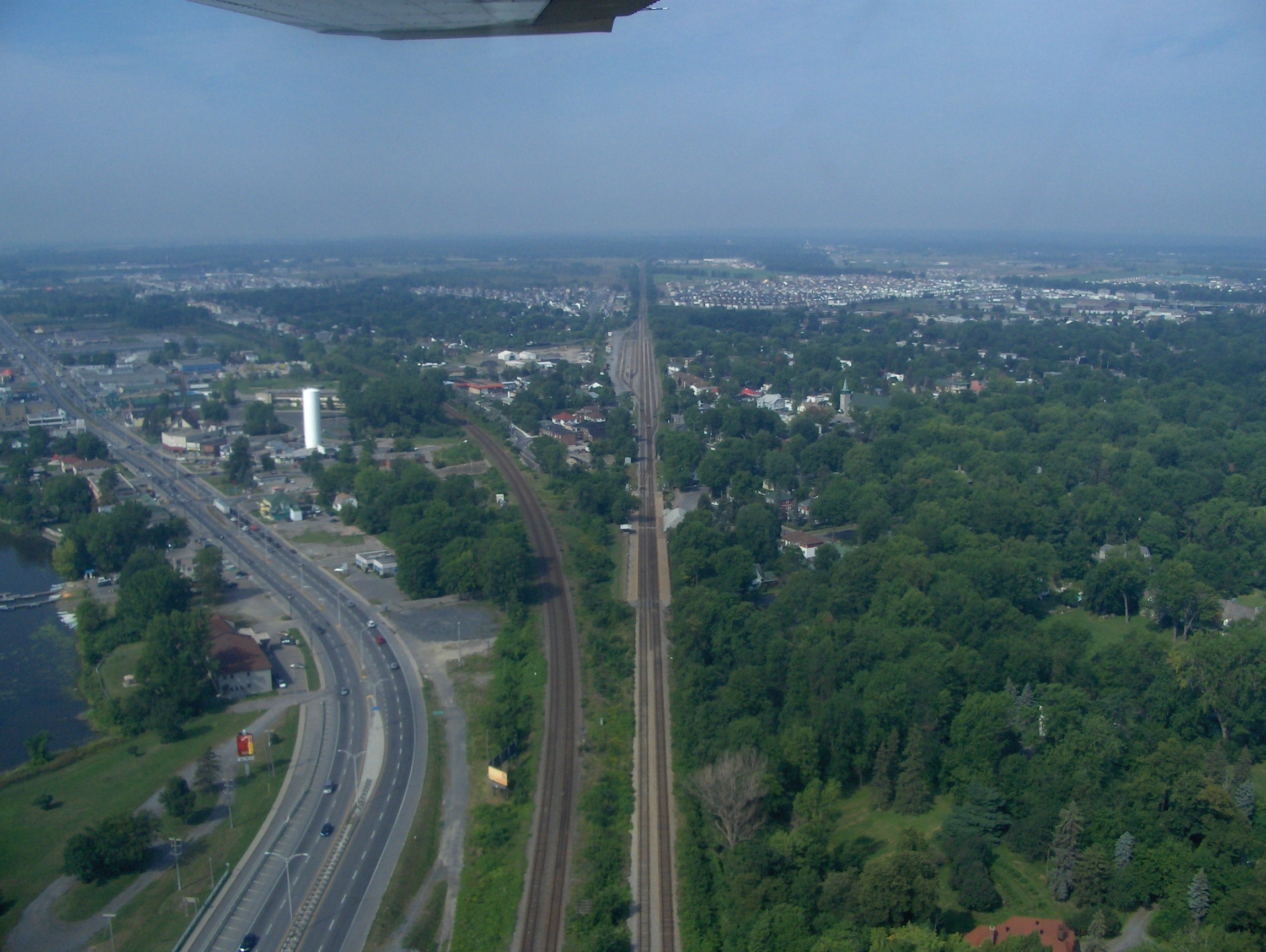 Autoroute 20, CN railroad and CP railroad in Vaudreuil-Dorion.